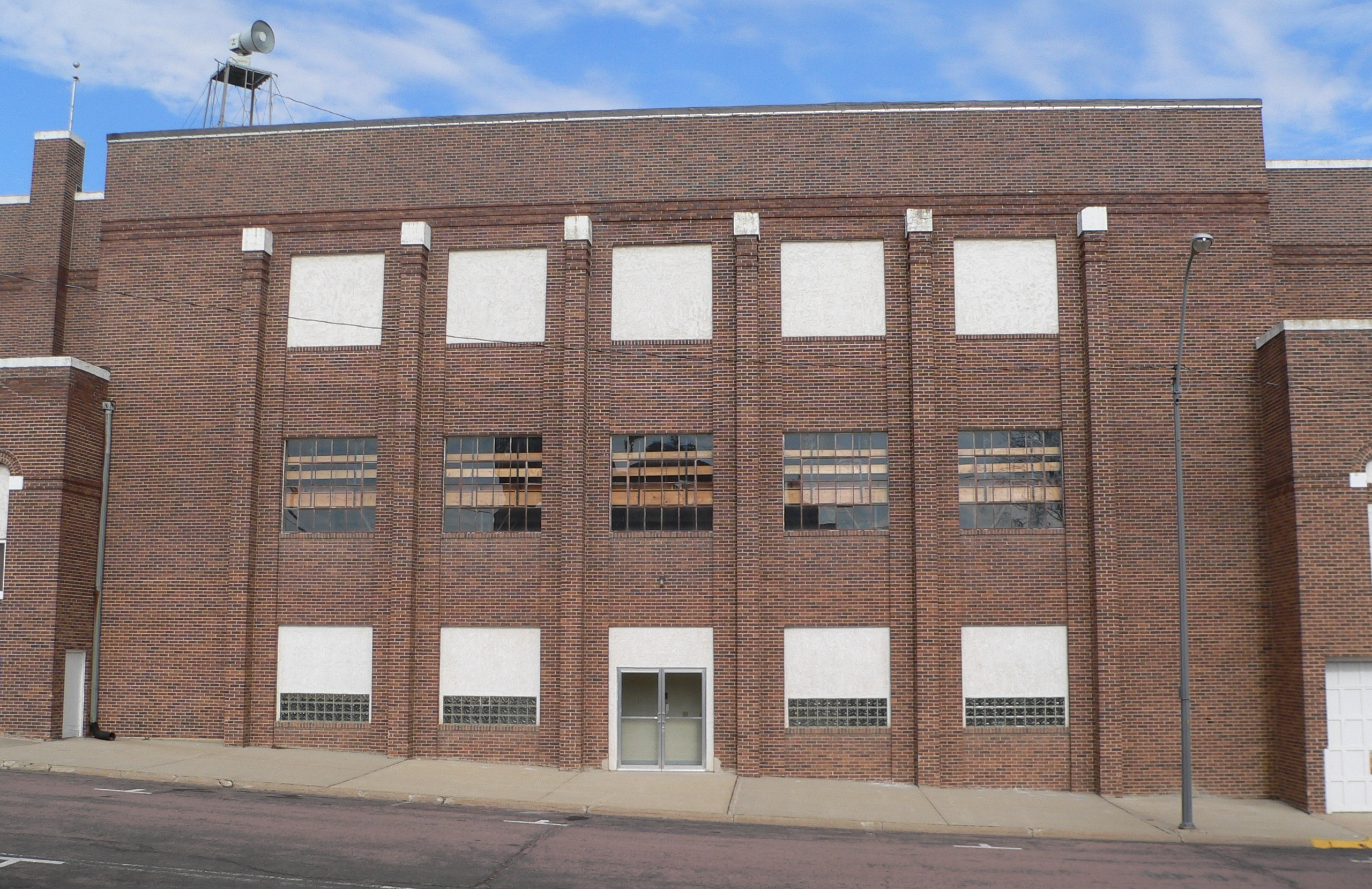 City auditorium, former city hall, in Hartington, Nebraska: central portion of south side of building. A building across the street precluded getting further back and thus photographing the entire auditorium from this angle.